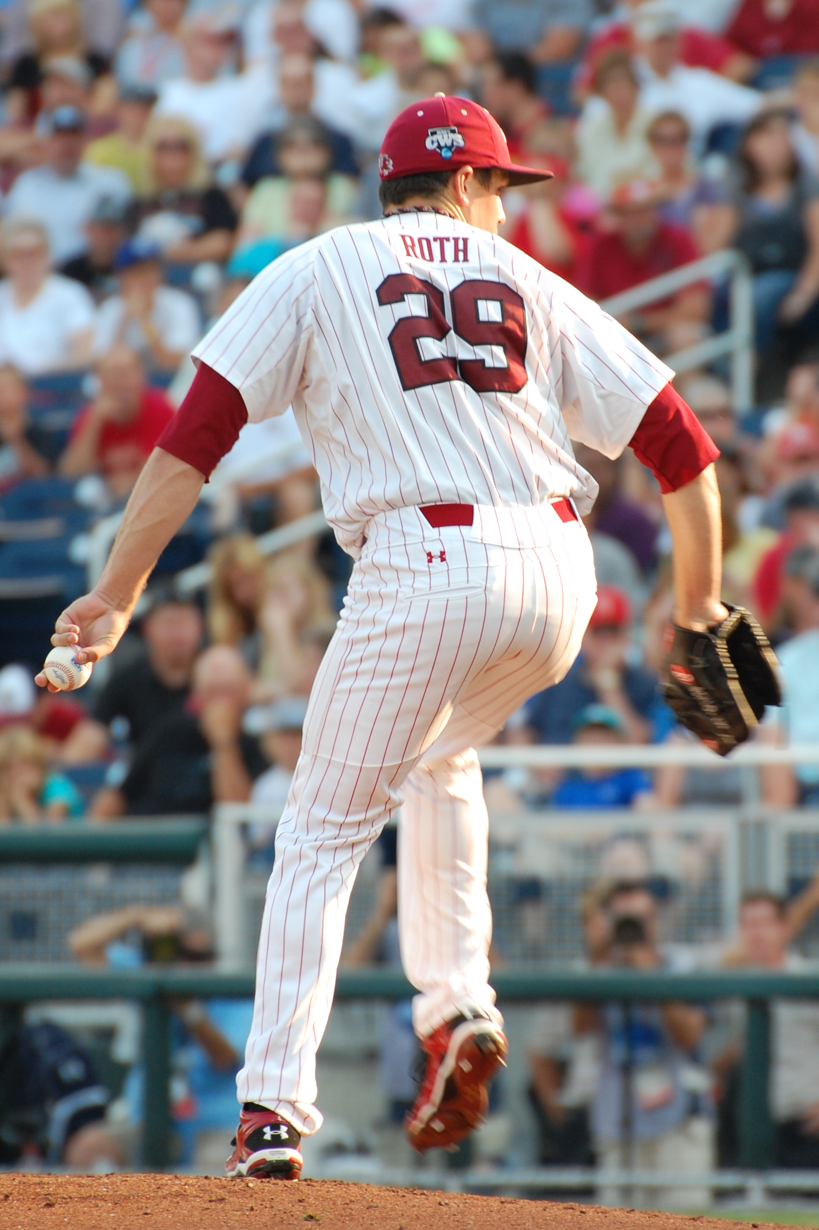 Michael Roth of the South Carolina Gamecocks delivers a pitch during the 2012 College World Series in Omaha.